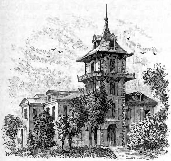 Drawing of Cedarcroft, home of United States poet Bayard Taylor